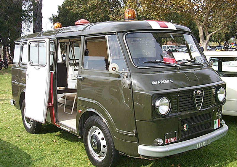 Alfa F12 Ambulance (1967-1977)